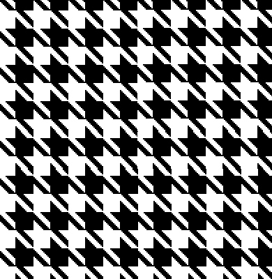 Houndstooth pattern multiplied from File:Hundtandsrutor.png